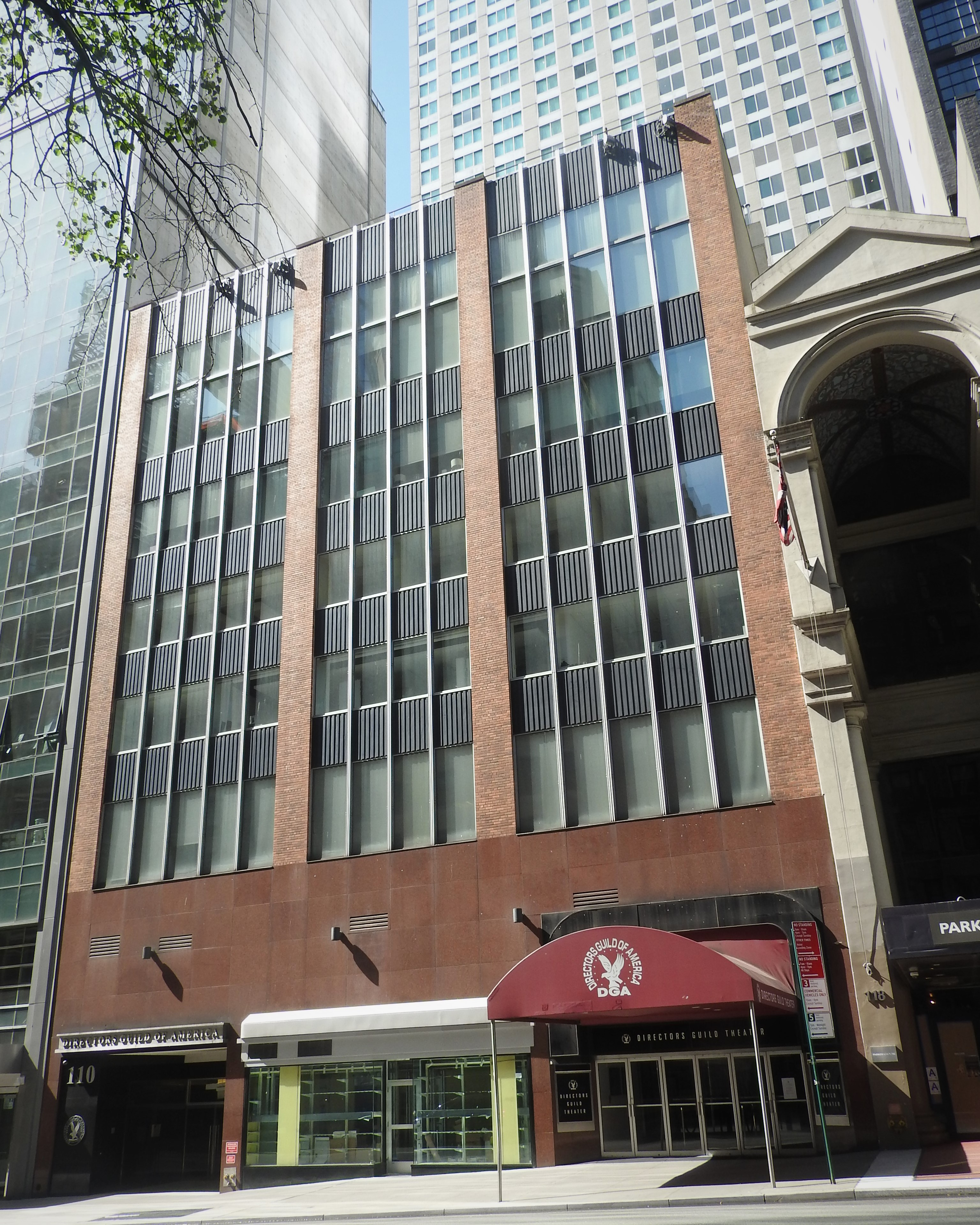 Looking south across 57th Street on a mostly sunny morning